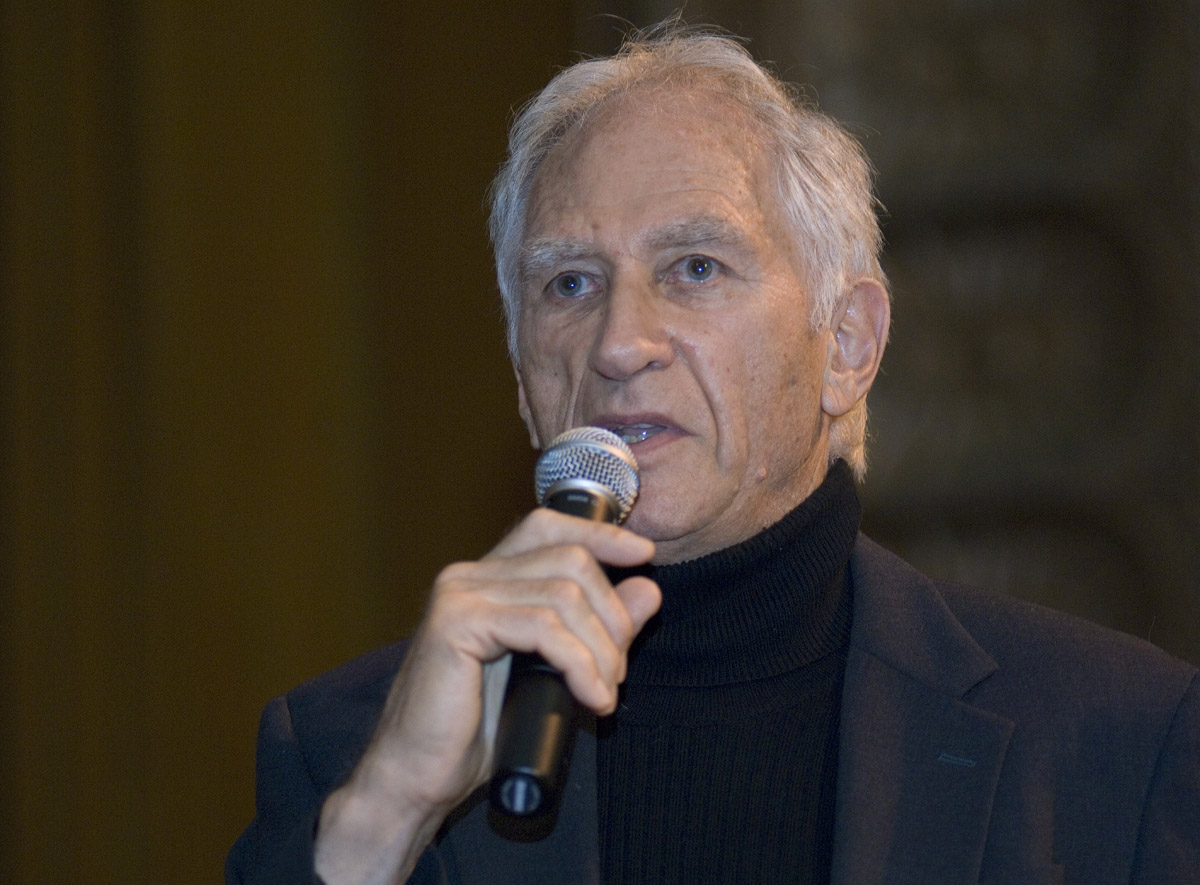 Director Terry Sanders, a two-time Academy Award Winner, speaks to nearly 300 U.S. Air Force personnel and Philadelphia, Pa., civic leaders before the premiere showing of his film 'Fighting for Life' during Air Force Week - Philadelphia May 28. The film is a power and emotional feature documentary telling the stories of doctors and nurses fighting on the frontllines of battle to save lives. Air Force Week - Philadelphia is designed to broaden awareness of the U.S. Air Force's role in the war on terrorism and strengthen support for Airmen serving worldwide in defense of freedom. (U.S. Air Force photo/Staff Sgt. Bennie J. Davis III)